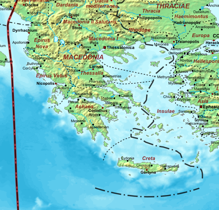 Map of the Roman Empire ca. 400 AD, showing the administrative division into dioceses and provinces, as well as the major cities. The demarcation between Eastern and Western Empires is noted in red.